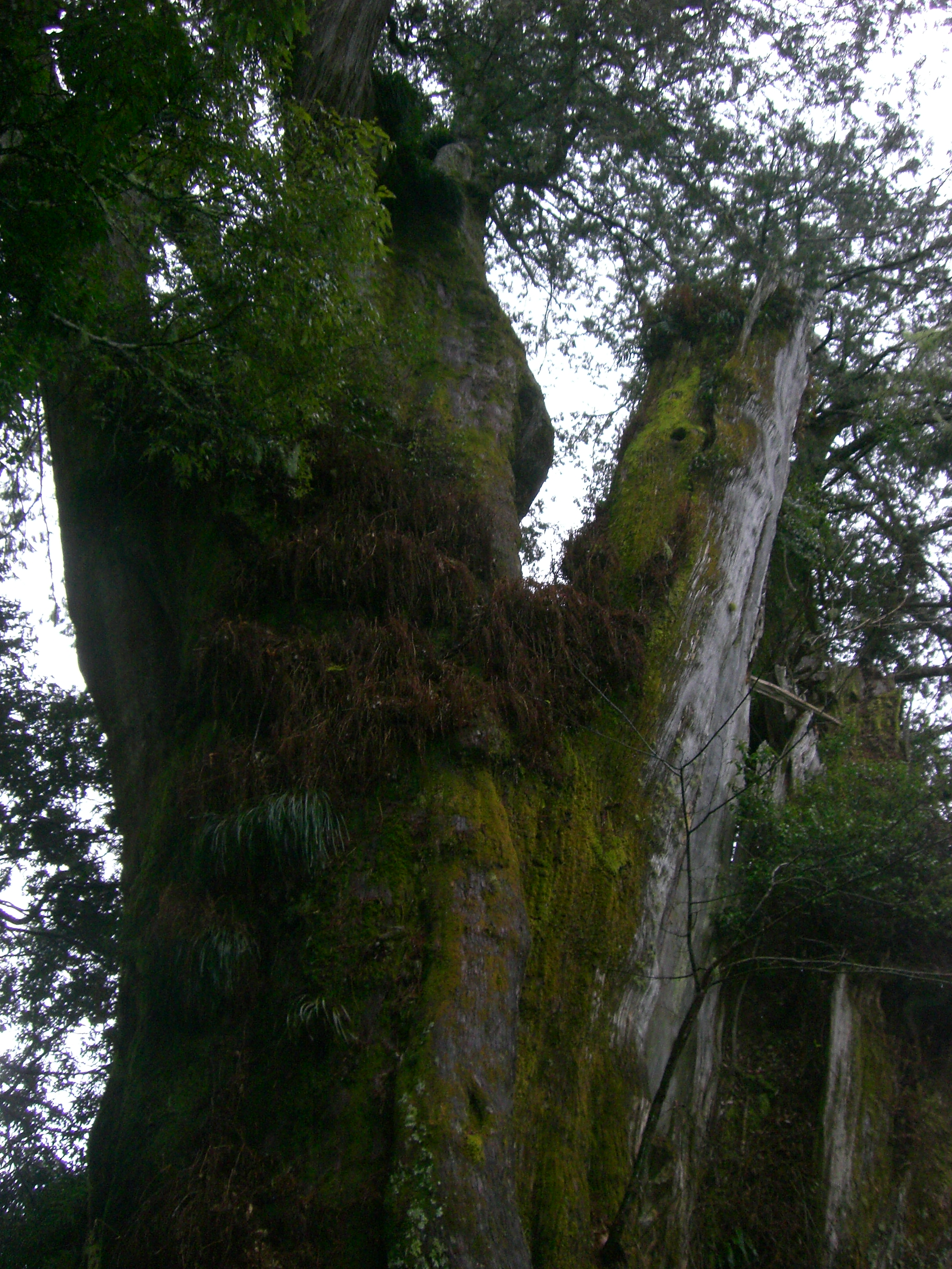 台灣鹿林神木（部份） Chamaecyparis formosensis